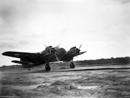 Tarakan Island. 1945-06-28. Tarakan airstrip was repaired against almost hopeless odds by members of 1 and 8 Airfield Construction Squadrons, RAAF and AIF units. It was opened to fighter aircraft for the first time on 28 June. Shown, a Beaufighter of 31 Squadron, RAAF, landing on the airstrip.